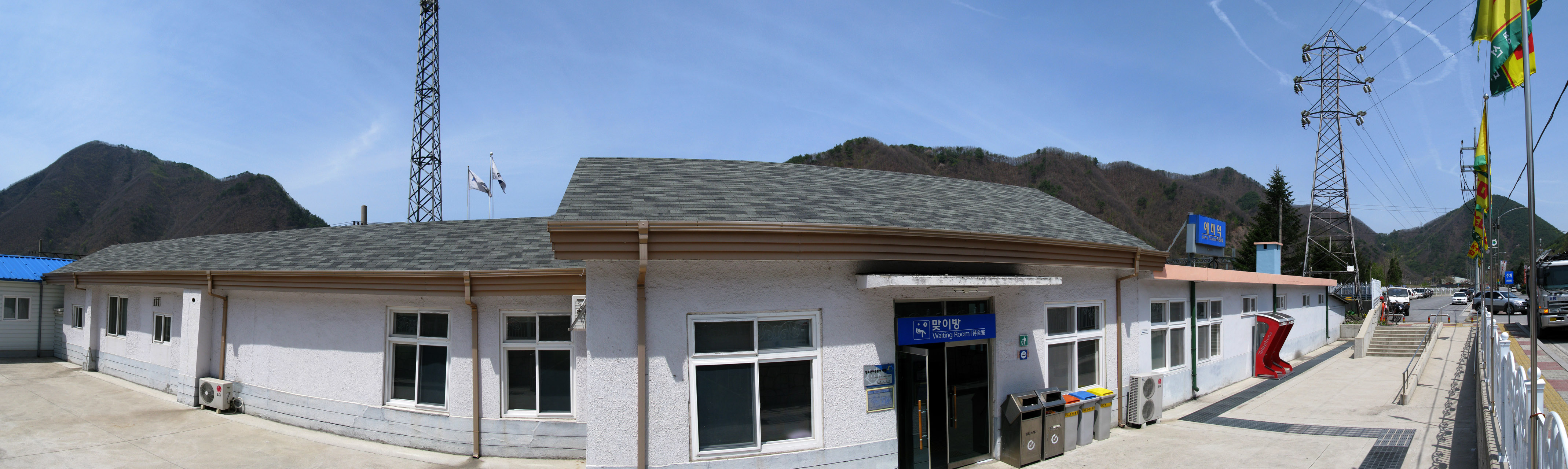 Taebaek, Hambaek Line Yemi Station